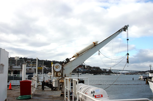 Davit on the NOAA-Ship McArthur II